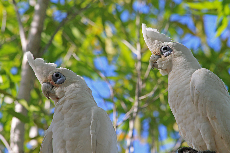 Little Corellas - Durack Lakes - Palmerston - Northern Territory - Australia